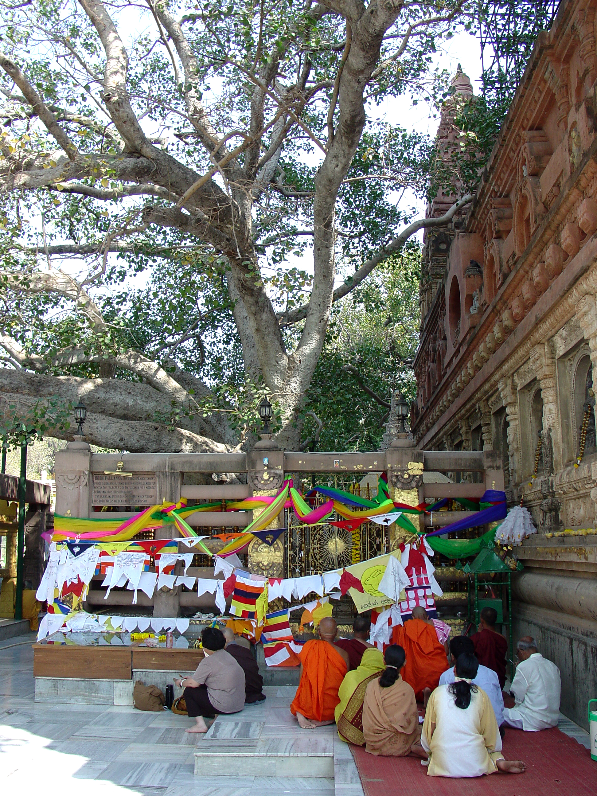 Bodhi Tree. Mahabodhi Temple, Bodhgaya The decorated railing at the west end of the temple marks off the sacred bodhi tree, or rather one descended from the original through the planting of saplings from it and its successors. It is here where the Buddha attained enlightenment